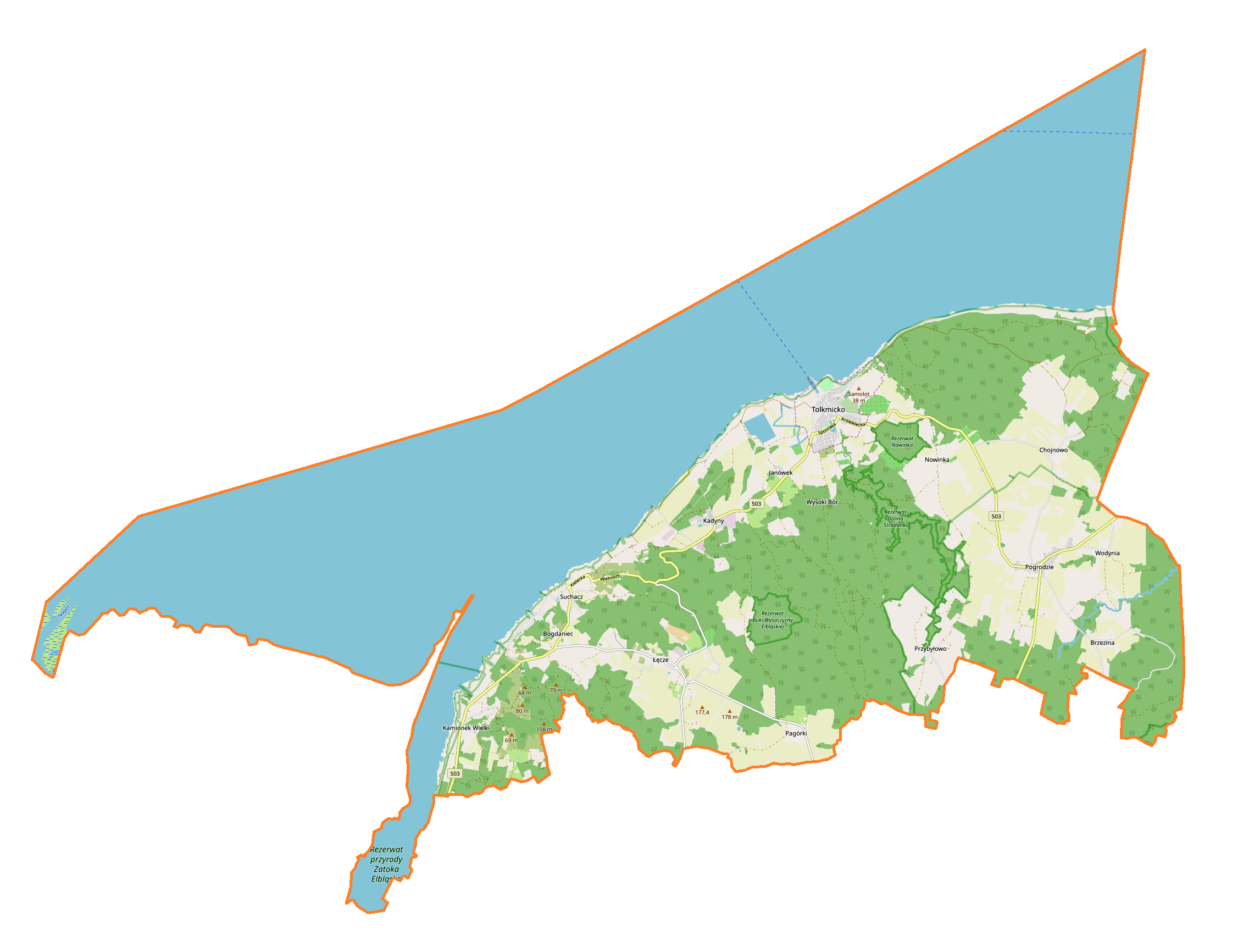 Location map